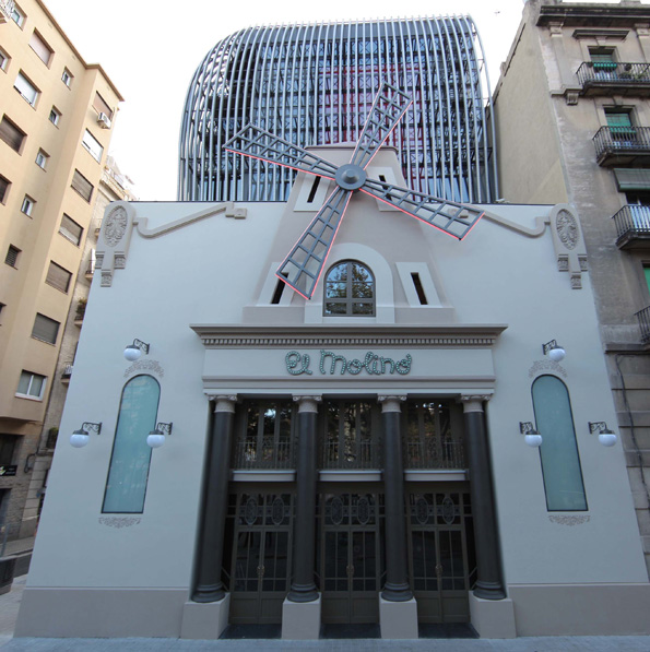 El Molino at Parallel's avenue in Barcelona (Spain)